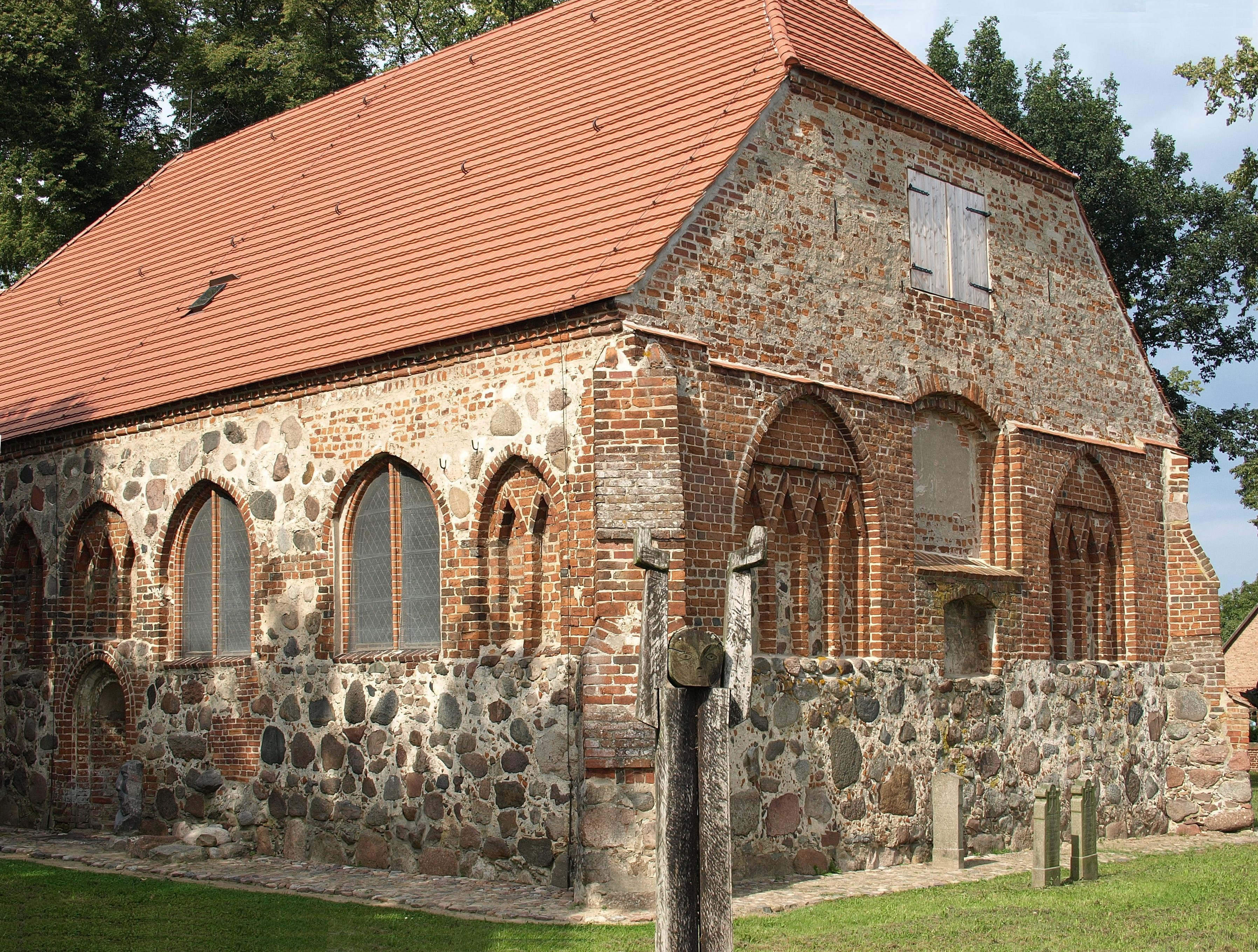 Church of Liepe/ Usedom, Germany St.Johannes in Liepe/ Usedom